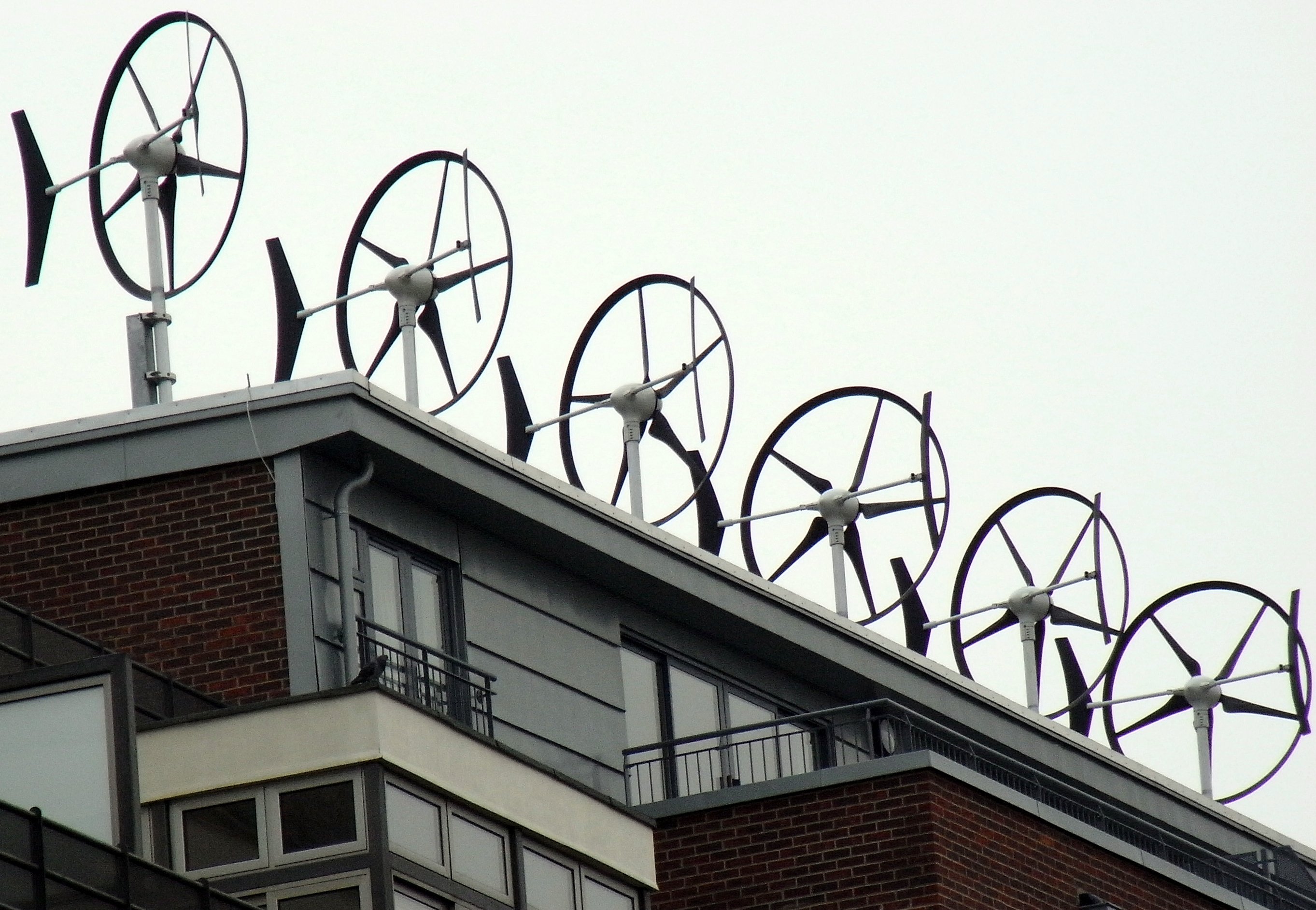 Regents Quarter development at Kings Cross, London, UK, with wind turbines on the roof